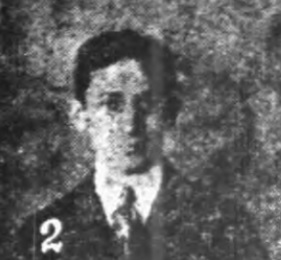 Portrait of New York assemblyman Charles B. Garfinkel